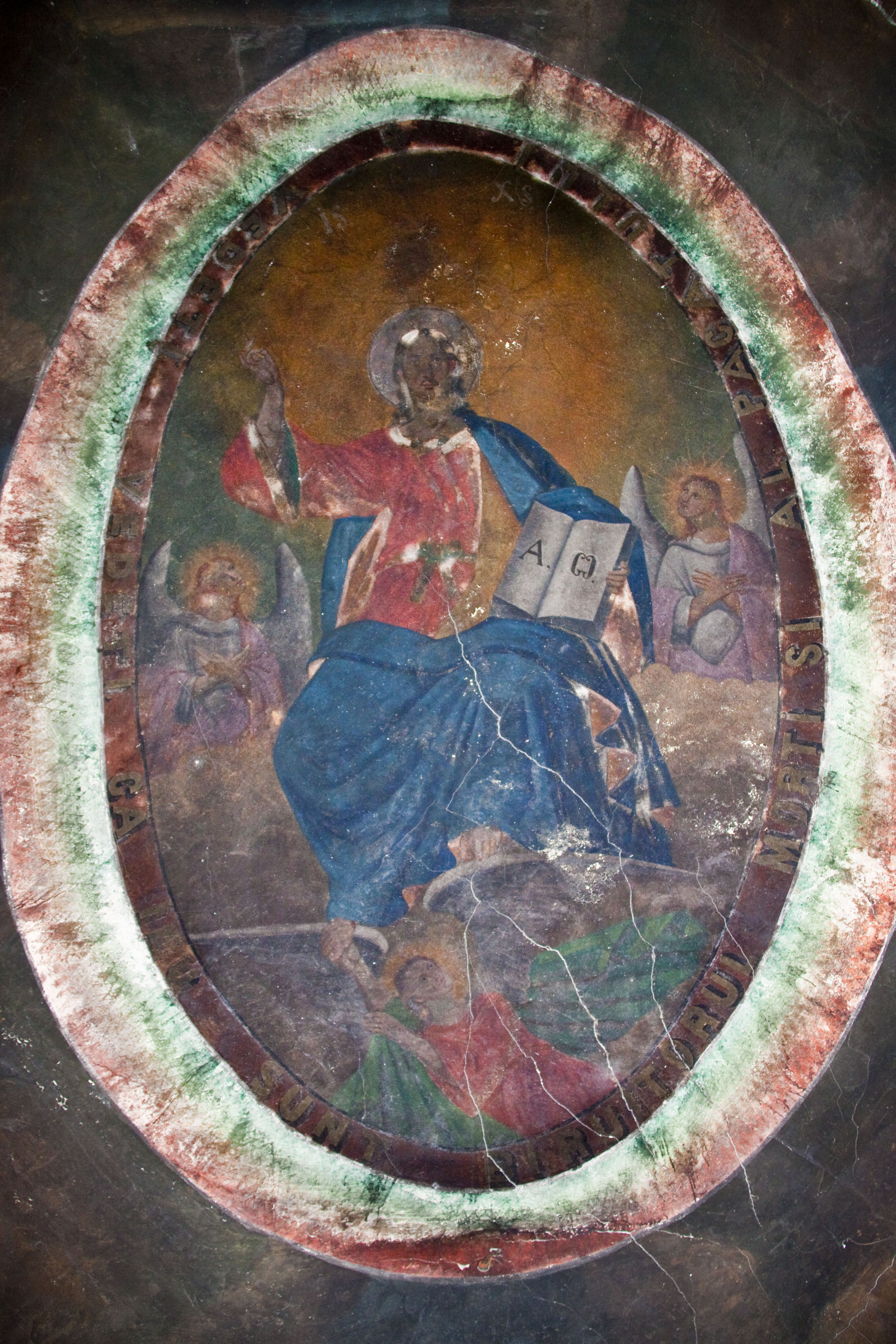 Şirineasa, Vâlcea county, Romania, the wooden church, Jesus, on the vault of the nave.